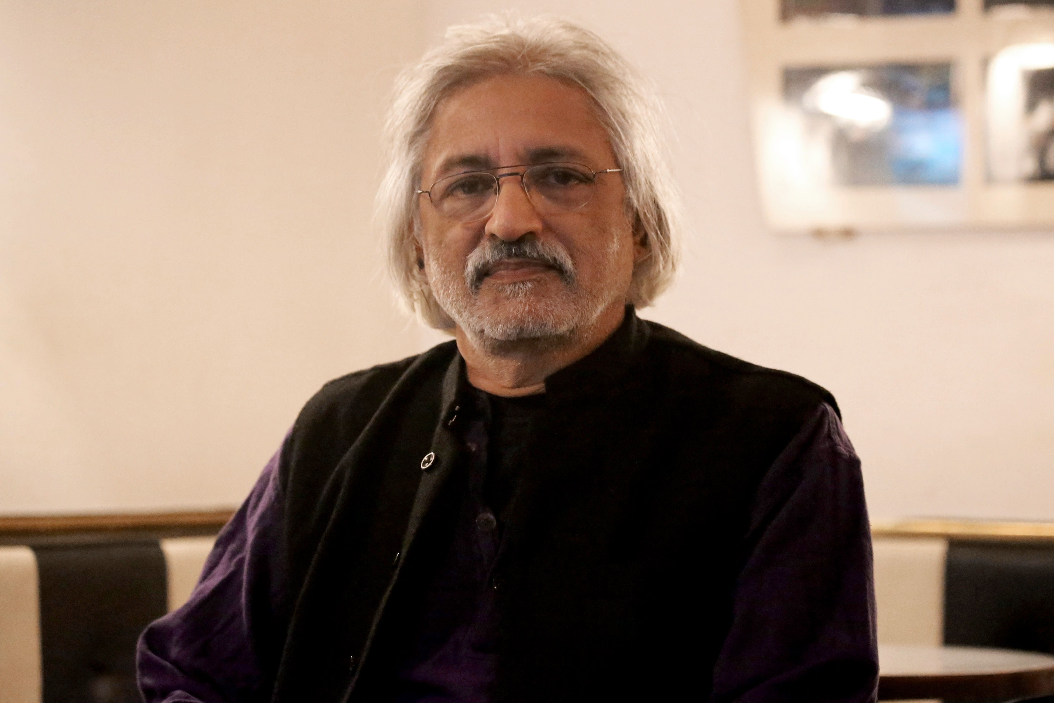 Anand Patwardhan presenting Jai Bhim Comrade at Vienna International Film Festival 2012 (Stadtkino).